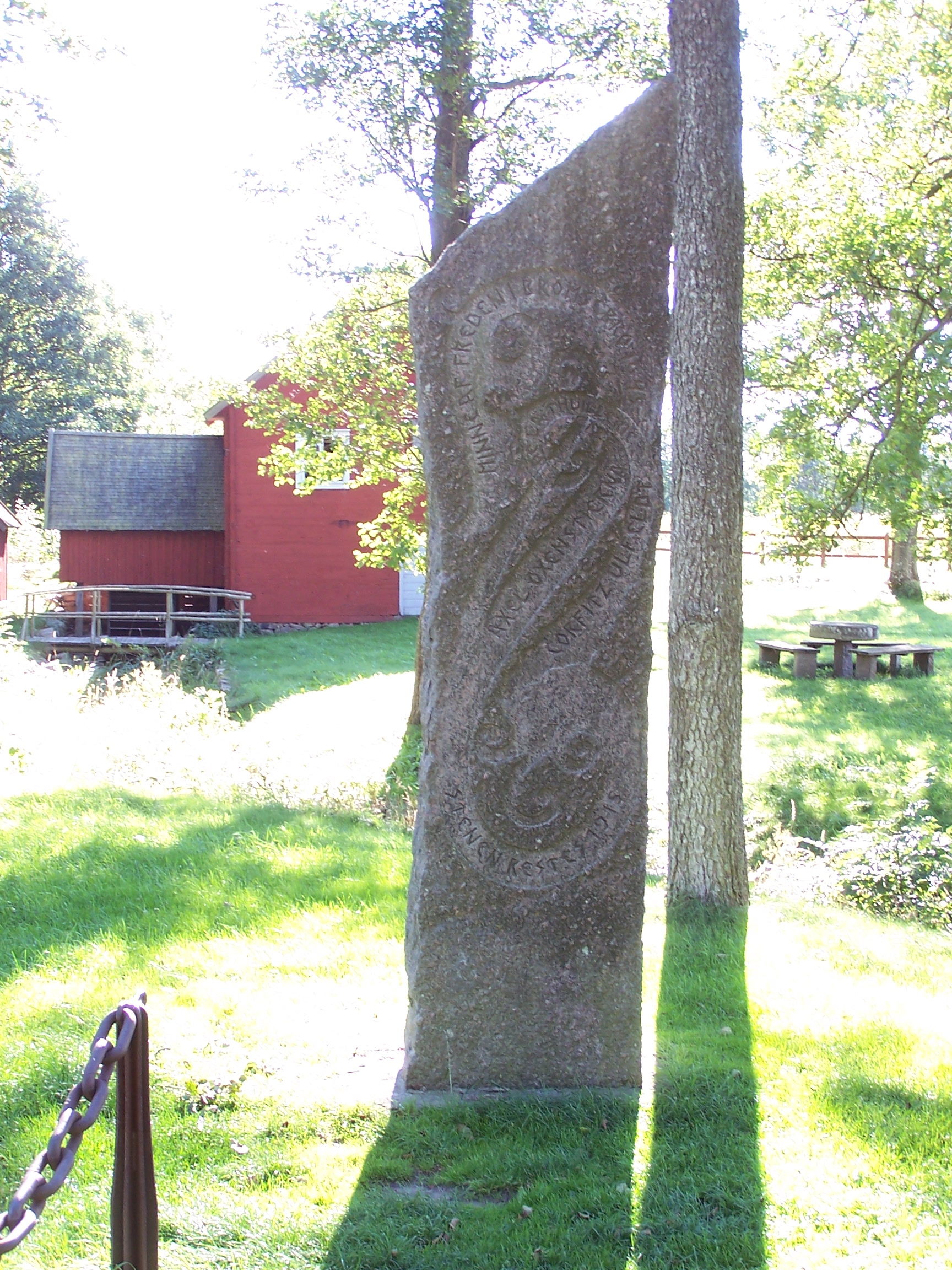 The peace stone in Brömsebro. The stone is carved in the style of an ancient rune stone, but it is modern. The stone was made in 1915 to commemorate the peace between Denmark and Sweden, and the text is written in Swedish, with Roman letters. The text on the stone translates to "Memory of the peace in Brömsebro - de la Thuliere - Axel Oxenstierna - Corfitz Ulfeldt - The stone was raised in 1915". The three named persons were the peace negotiators. De la Thuliere was an ambassador from France, Axel Oxenstierna represented Sweden, and Corfitz Ulfeldt represented Denmark.